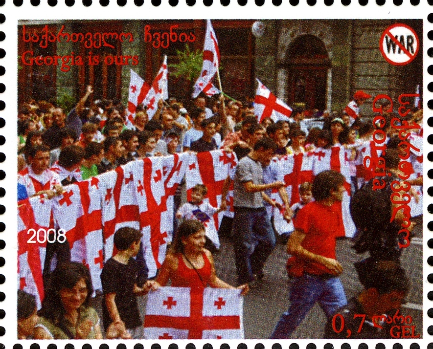 Stamps of Georgia, 2009